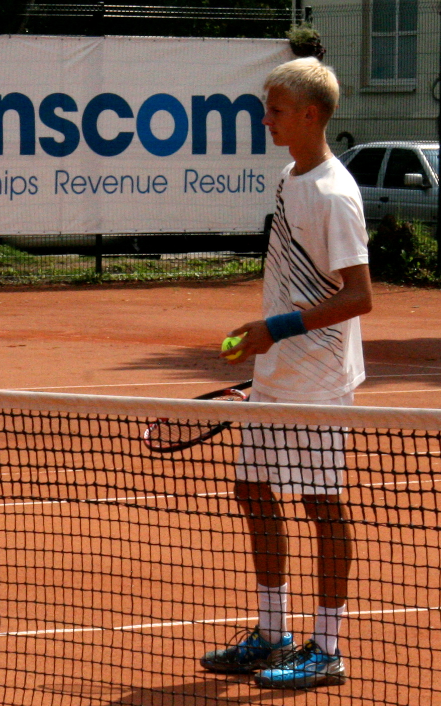 Picture of Lithuanian tennis player Lukas Mugevičius